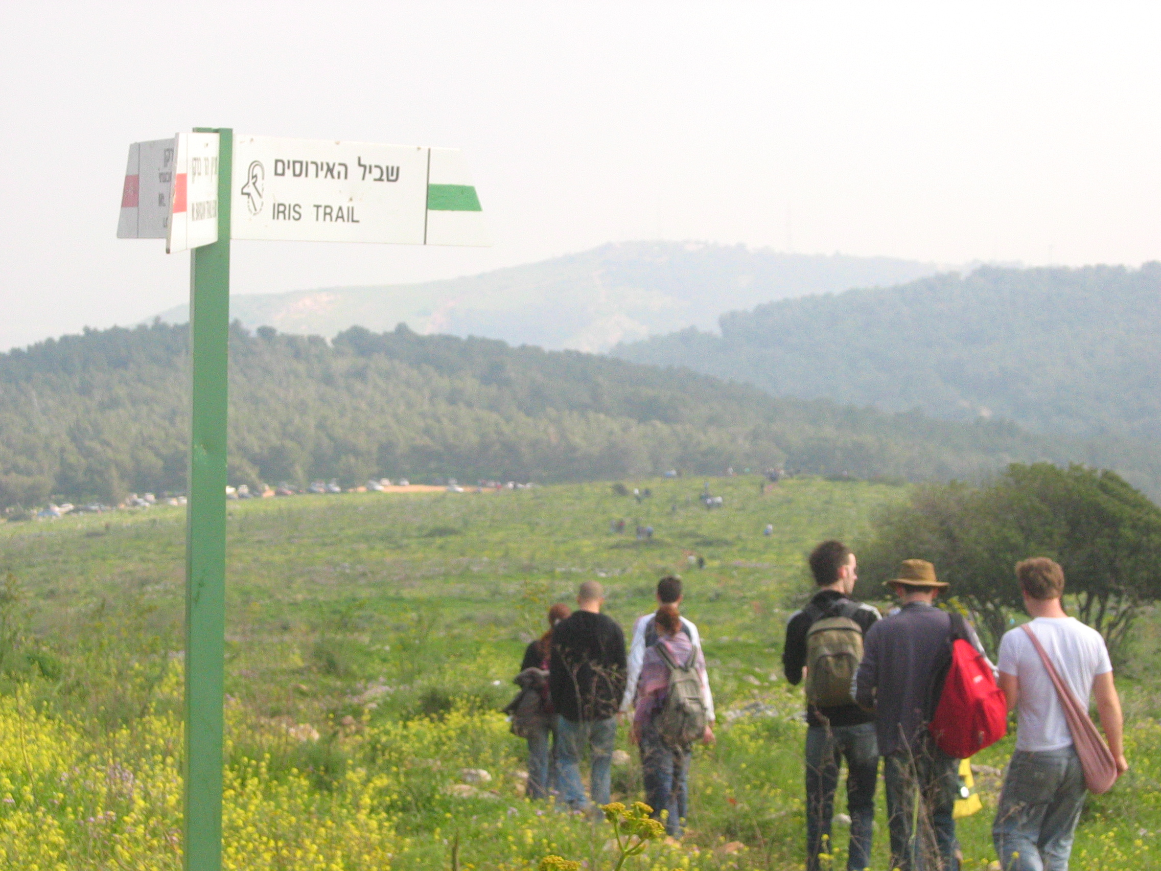 Mount Gilboa